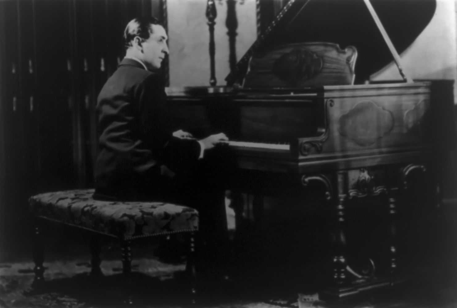 Vladimir Horowitz, full-length photo portrait, seated at piano, right profile.